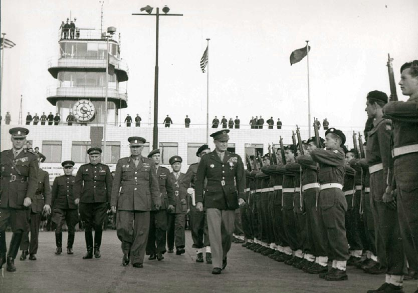 Dwight D. Eisenhower at Prague Ruzyne Airport on Oct. 12, 1945